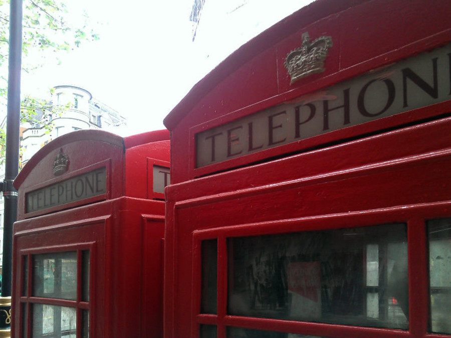 K6 gold Queen's Crown (right) and King's Crown (left), Near to Leicester Square tube station, Charing Cross Road, London